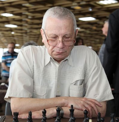 Vadim Faibisovich (chess player)